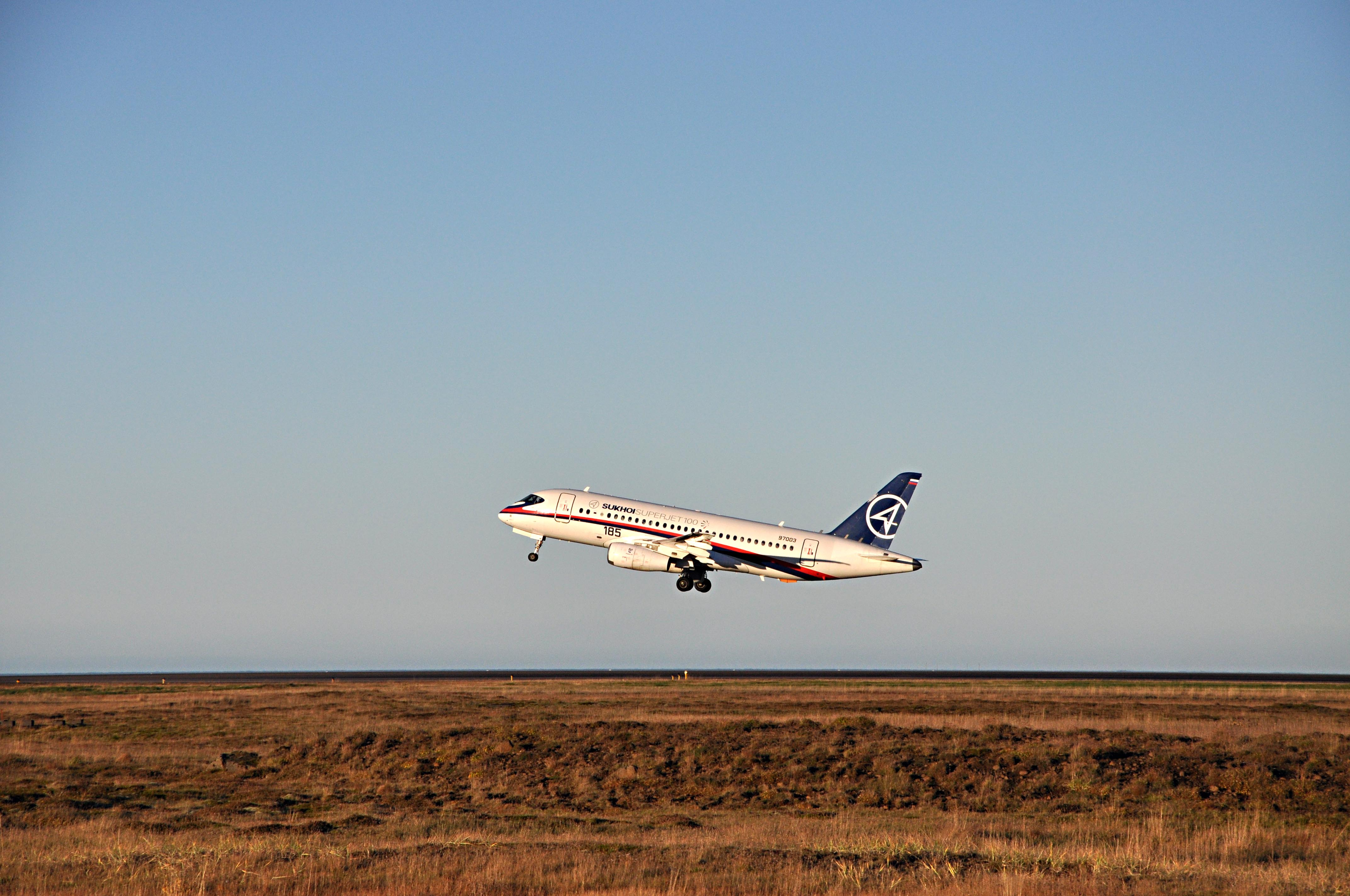 Sukhoi Superjet 100 Certification Program is progressing towards completion Sukhoi Superjet 100 certification campaign is successfully progressing towards completion. All major certification flight programs are accomplished. The prototypes have gained 2245 flight hours in 948 flights. On October 28 the aircraft 95003 returned from Iceland after a month testing for operation in side winds, having fully confirmed its compliance with certification requirements at side wind speed up to 15m/sec. Keflavík International Airport is situated at the Atlantic coast of Iceland. Its runways are built at 90 degrees angle each other, so when the wind follows the direction of one runway, it causes side wind at another one bringing the possibility tο conduct test landings іn side wind, nο matter whісh direction thе wind blows. Because of its unique wind conditions, Keflavik Airport is widely used for side wind testing by the European and American manufacturer. Keflavik has been used for side winds testing by A380 and B787. Along with side winds testing program, the aircraft has successfully performed a series of testing for CATII landing, which is enough to get the Type Certification. Preparation to CATIIIA testing is in progress. In Zhukovsky Flight Test Center SCAC engineers successfully completed air stairs and cargo compartment equipment testing. “We’ve already gone through the most challenging testing certification programs. As per our estimations our team has already covered 90% of the overall certification testing scope. Now we are finalizing avionics safety failure testing, EMC, HIRF with emergency evacuation testing to follow”, - said Igor Vinogradov, SVP Certification.